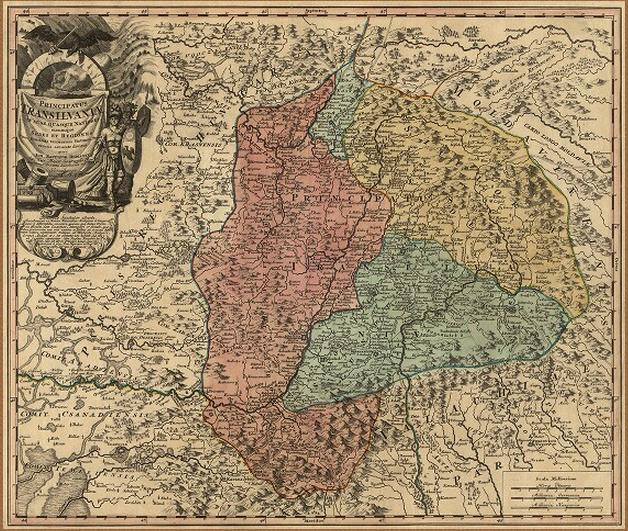 "Principatus Transilvaniae in suas quasque nationes earumque sedes et regiones cum finitimis vicinorum statuum provinciis accurate divisus"